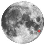 Description: Location of the Vendelinus crater on the Moon. The marker also shows the proximity of the Lamé, Lohse, and Holden craters. Source: This is a modified version of a photo obtained from the NASA Planetary Photojournal. It was modified by RJHall. Width: 150 pixels Height: 150 pixels